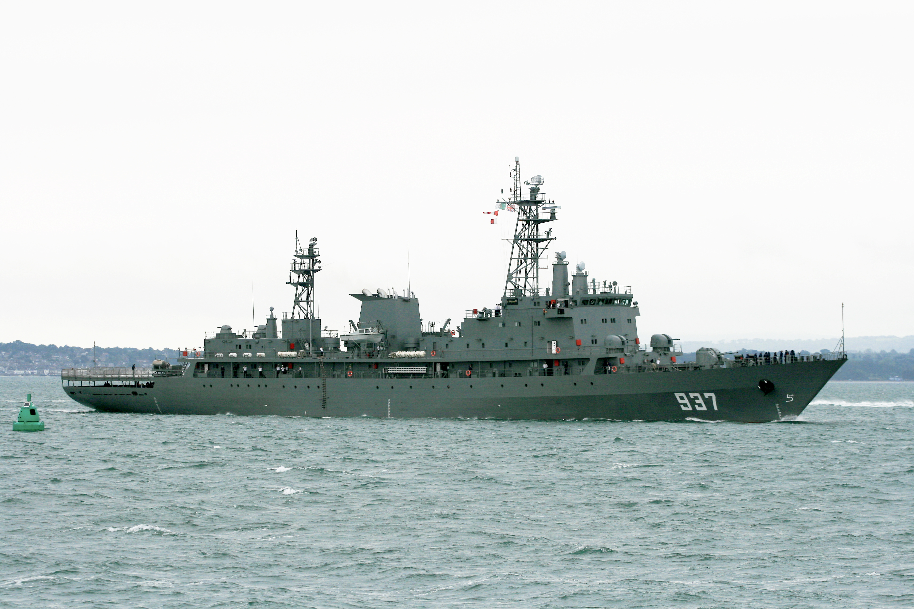 ANS La Soummam, an Algerian Navy training ship, pennant number 937, entering Portsmouth Naval Base, UK, on 21 June 2013 photographed by Brian Burnell. Wikipedia editors are reminded that the copyright remains with the photographer, and that the terms of the Creative Commons (CC), Attribution (BY), Share Alike (SA) CC-BY-SA-3.0 that allow editors to reuse this image apply to Wikipedia editors also, as they do to other re-users of this image. Breaches of the licence terms are not only unlawful, but are also antisocial, in that breaches discourage photographers from making their images freely available to everyone without payment. Wikipedia re-users are also reminded of the license terms that derivatives of this image should not imply that the adaptation is endorsed or approved by the author or copyright holder. Neither should derivatives be presented as the creation of the author or copyright holder, while clearly stating that the adaptation is a derivative of the original. Attribution online should be in this format Brian Burnell. On the printed page, a simpler form is acceptable - example: "Image: Brian Burnell".